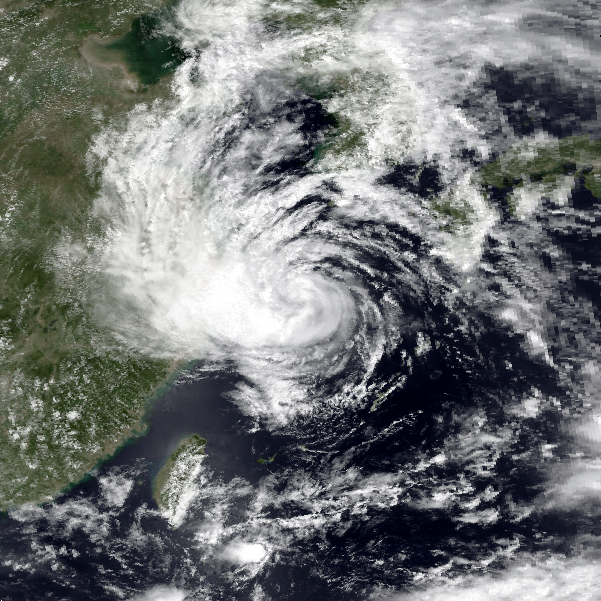 Tropical Storm Ken on August 3, 1989 with winds of 60 mph and a pressure of 980 mbar.